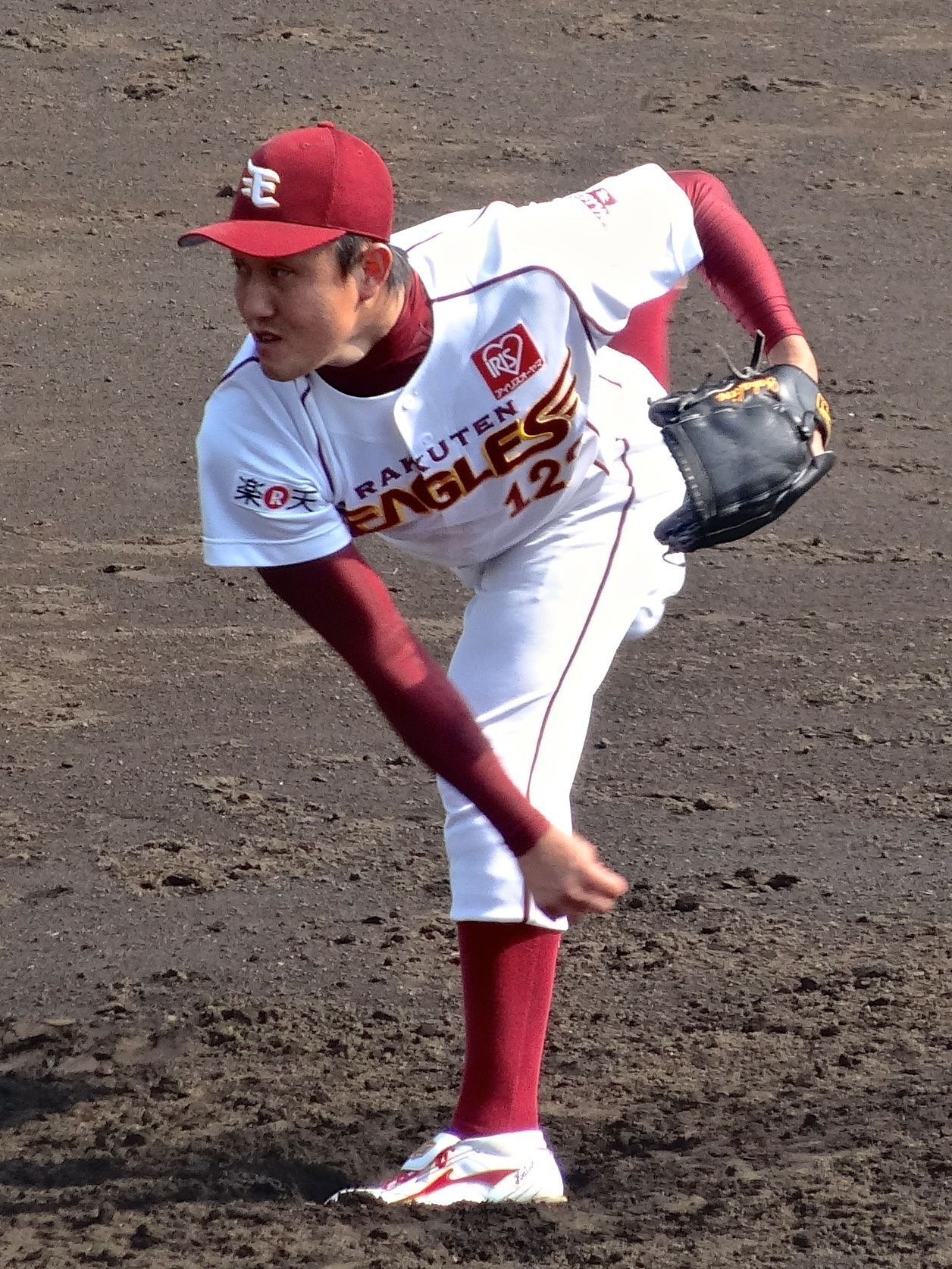 Takahiro Kato, pitcher of the Tohoku Rakuten Golden Eagles, at Saitama Municipal Urawa Baseball Stadium.